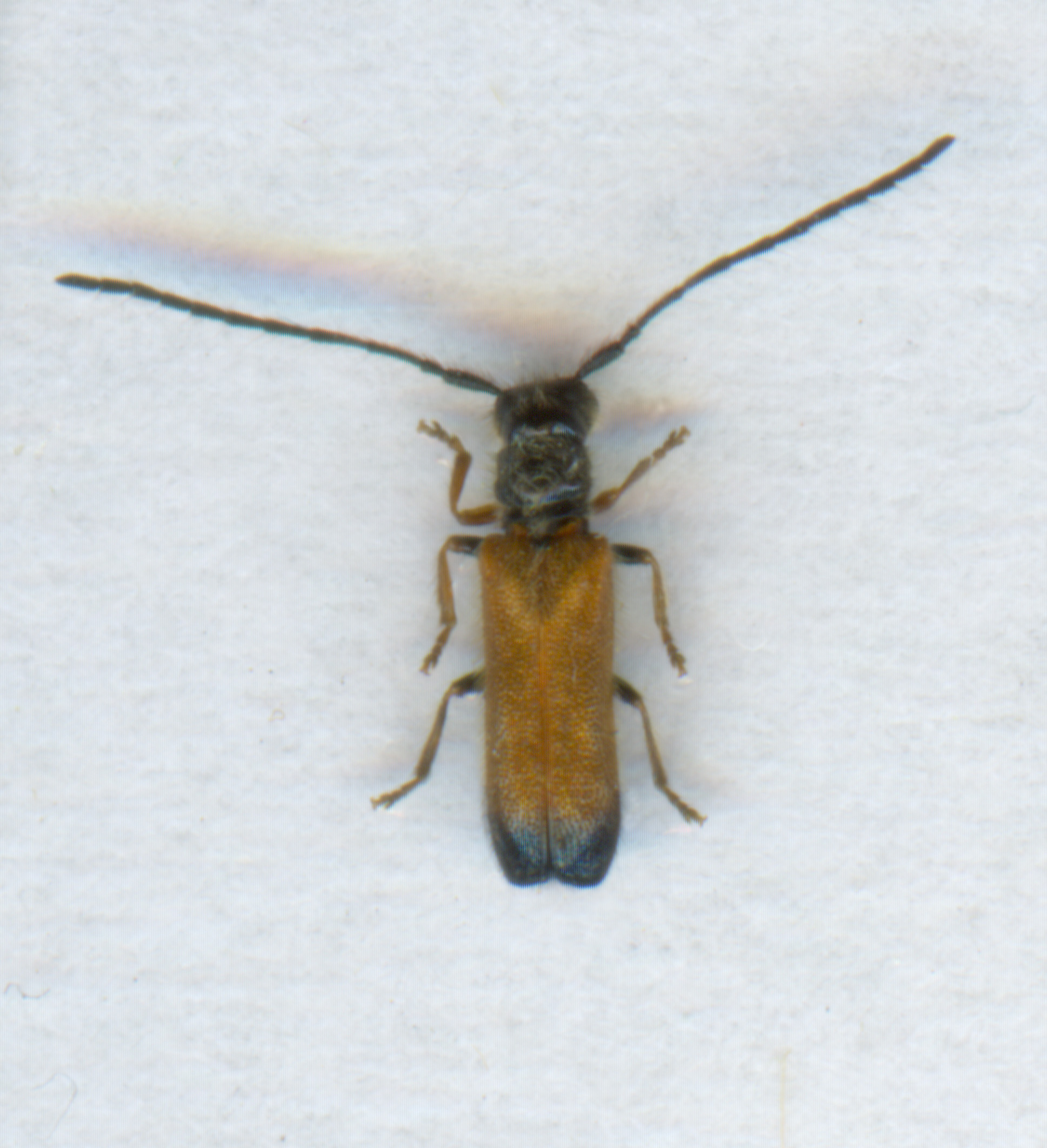 Tetrops praeustus